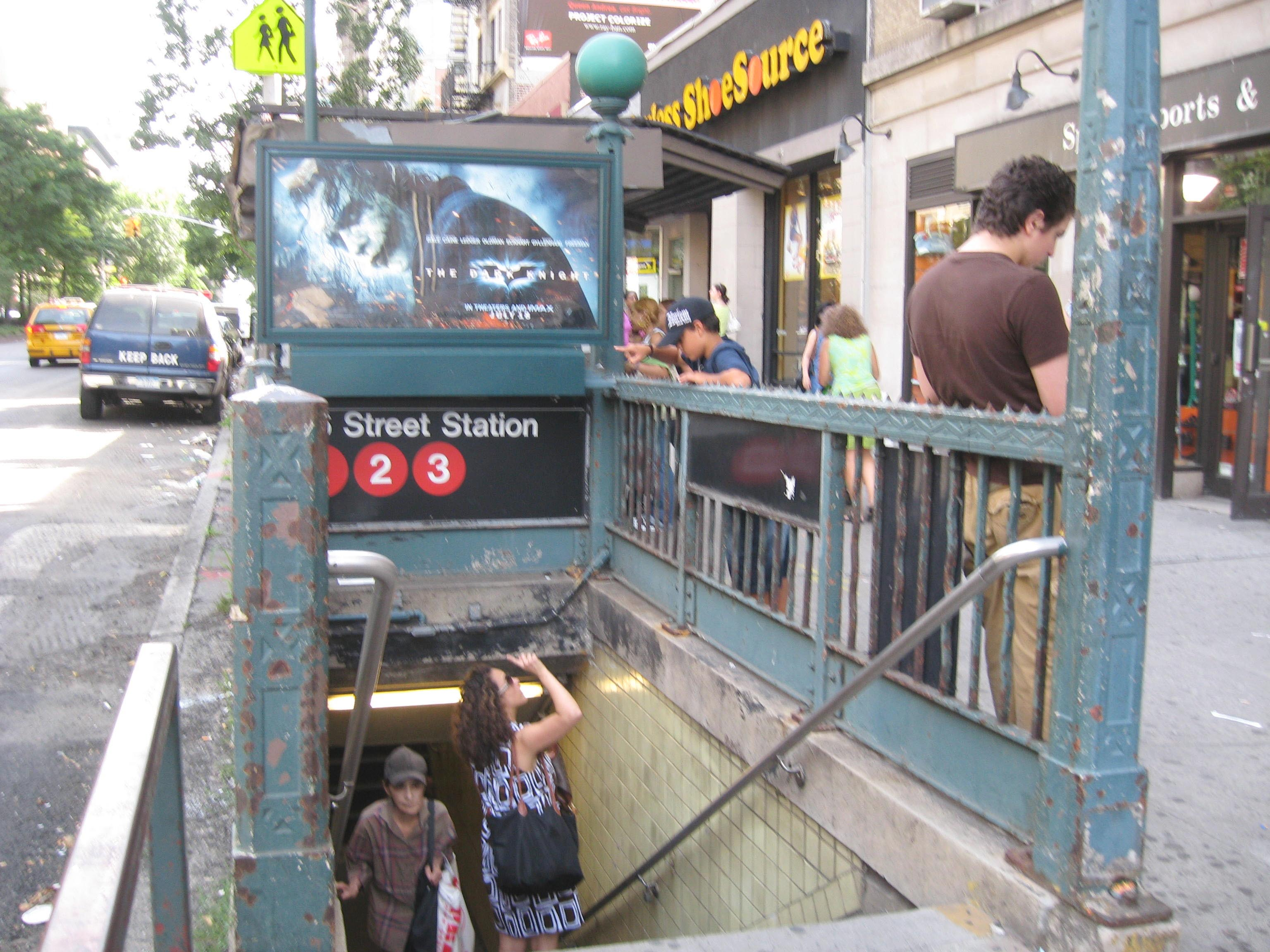 Looking southwest from 94th along Broadway at street stair of West 96th Street IRT on a sunny late afternoon.